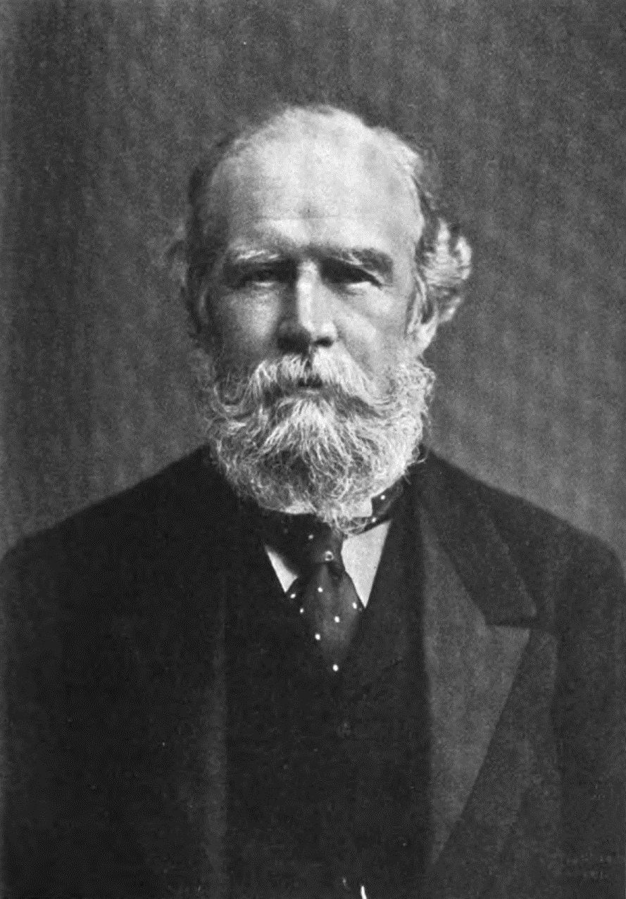 John Lubbock, 1st Baron Avebury